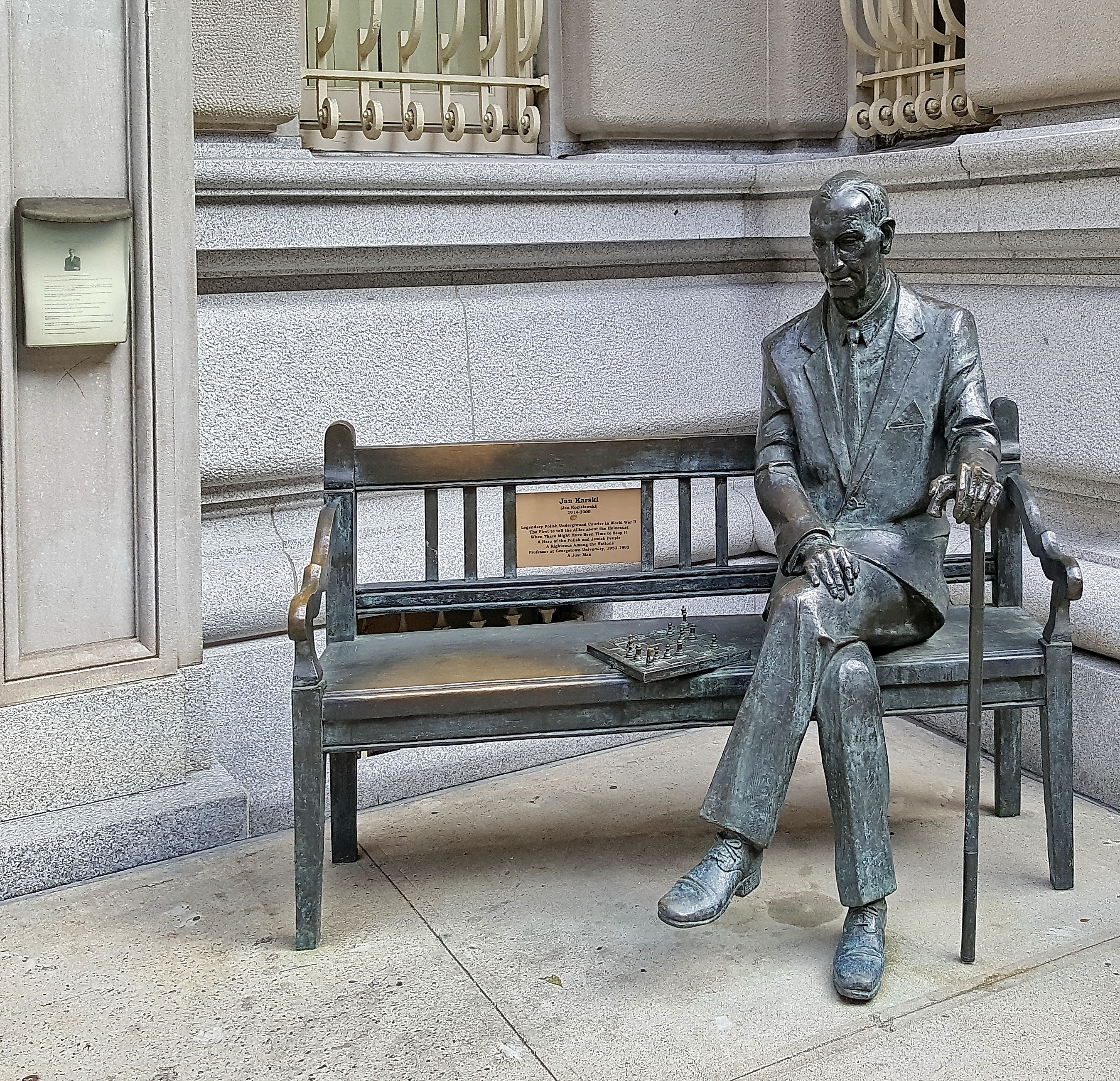 Karski bench is located in front of the Consulate General of the Republic of Poland in New York. The corner of 37th Street and Madison Avenue is called "Jan Karski Corner"